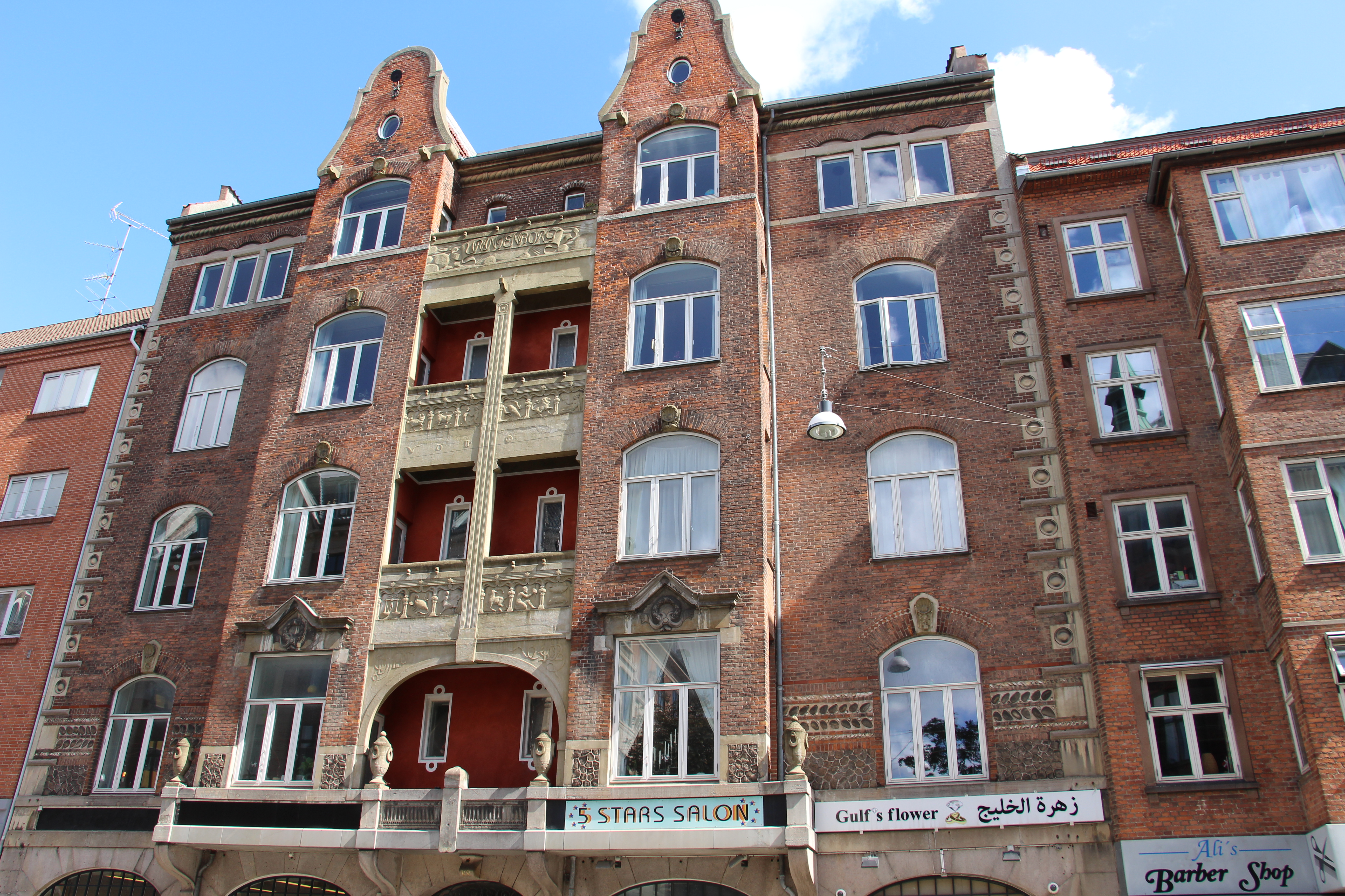 The property Uranienborg on Nørrebrogade in Copenahgen, Denmark Danish Art Nouveau. Arch. Anton Rosen 1902.